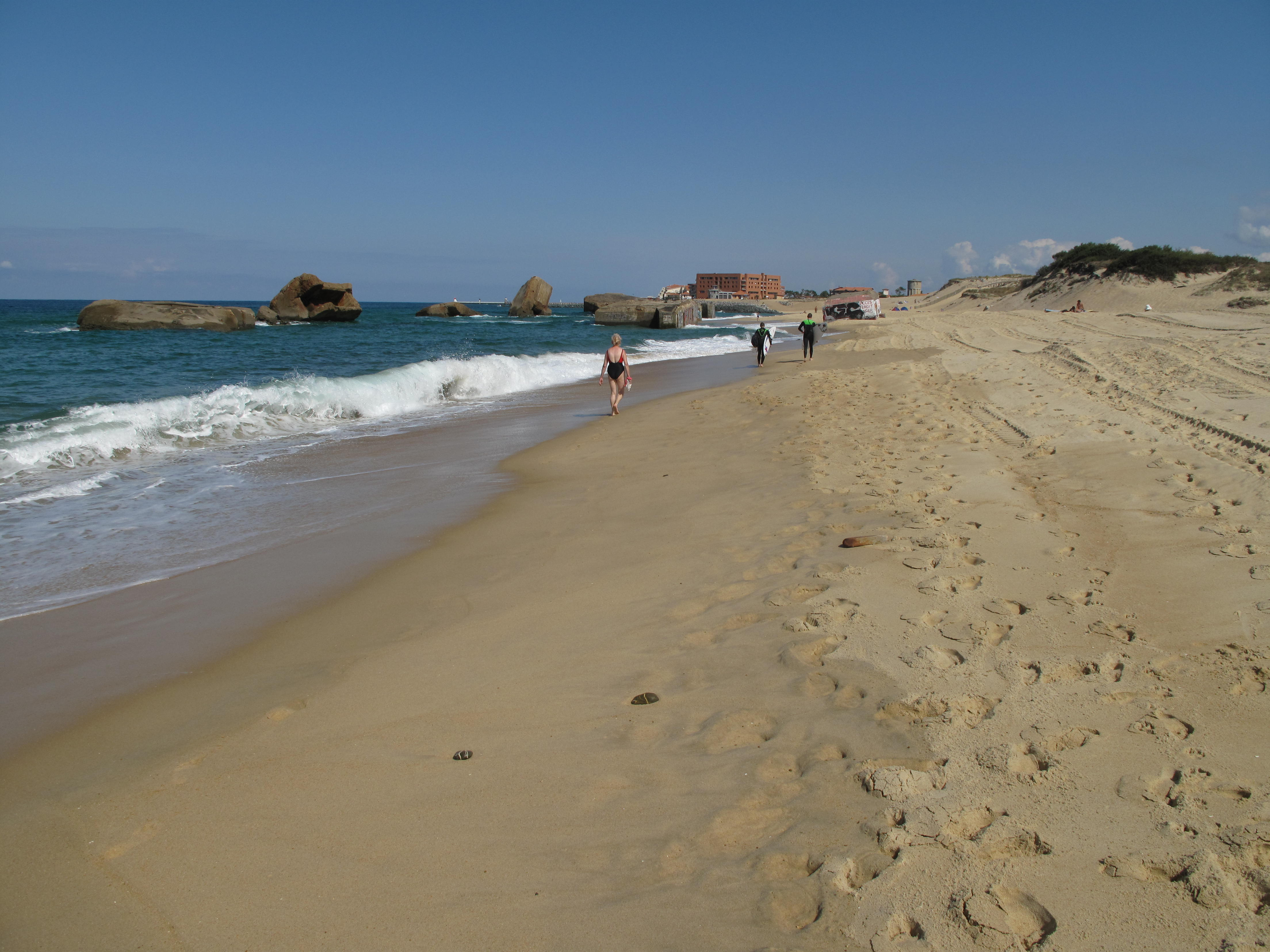 Blockhauss of Capbreton (Landes, France) seen from the south. Built at the top of the dunes circa 1943, they show are now underwater 2/3 of the time. It shows 200 meters of recession of the beach in 65 years.